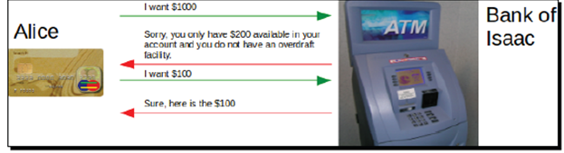 Монгол: Authorization